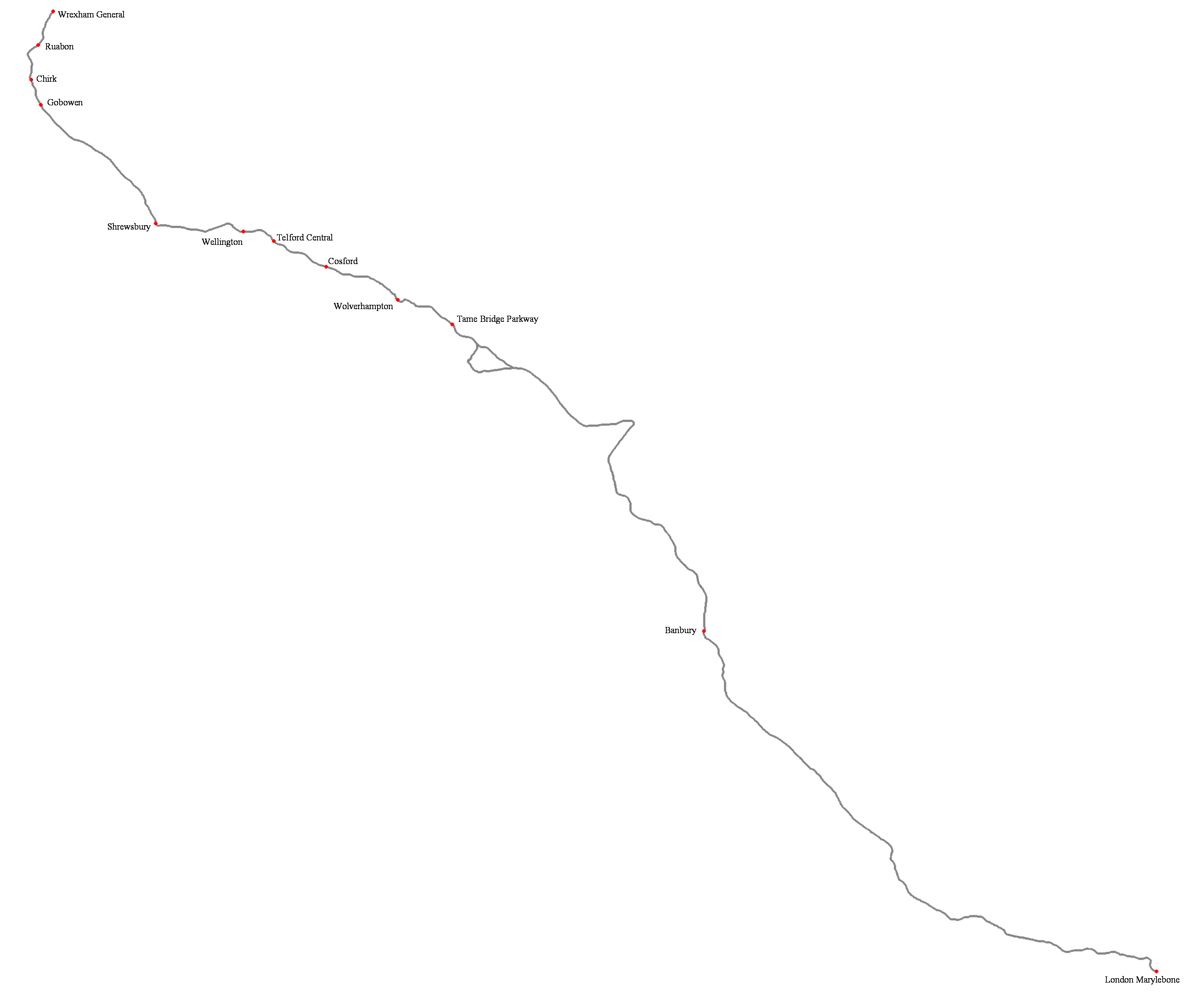 This is a route map for use on Wrexham & Shropshire (Wrexham, Shropshire and Marylebone Railway), showing the geographic location. The scale is 2.7 cm = 5 miles. Please note that this also exists on Commons under the name Image:WSMR trial route map.png. However, this has been kept here to preserve the history.